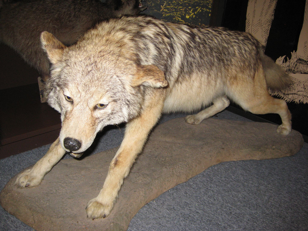 The 'Varmint of Burke's Garden' mounted and on display at the Historic Crab Orchard Museum and Pioneer Park in Tazewell, Virginia.